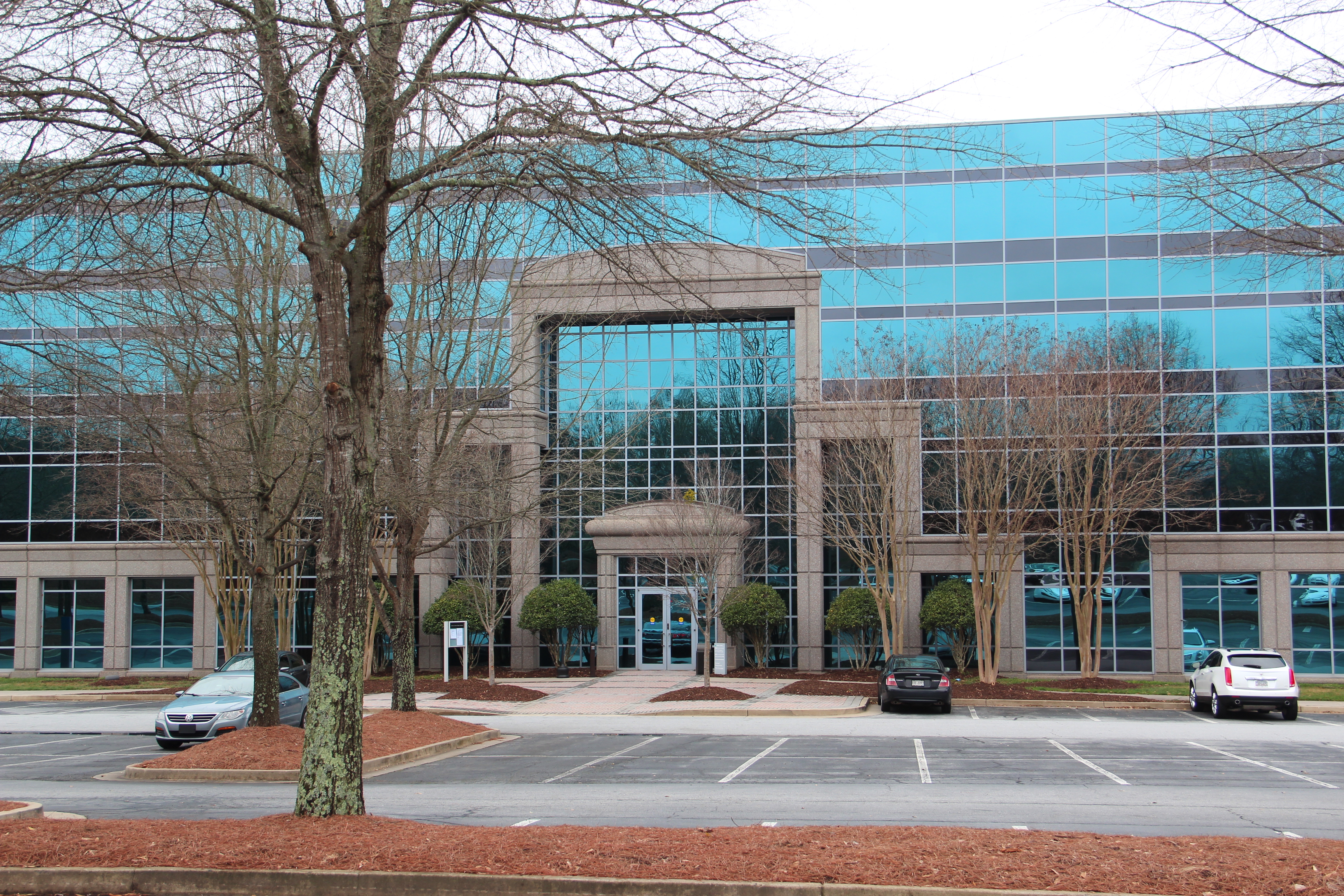 Johns Creek City Hall